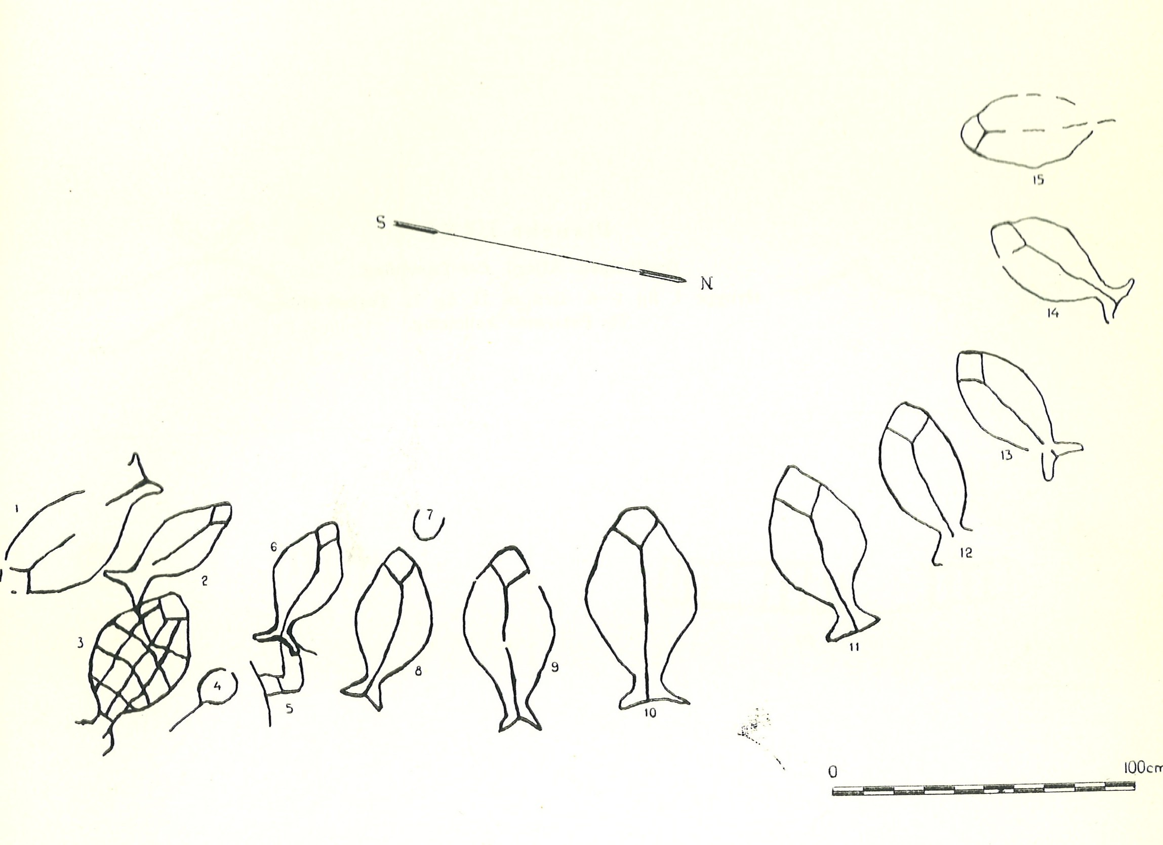 The Kvennavika rock carvings from Mosvik, Nord-Trøndelag, Norway; a set of 12 fishes, probably Halibut (Hippoglossus)